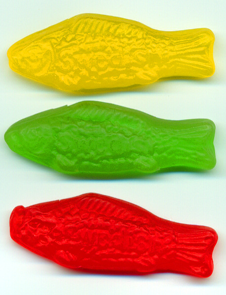 Three Swedish fish: yellow, green, and red (all oranges already eaten).